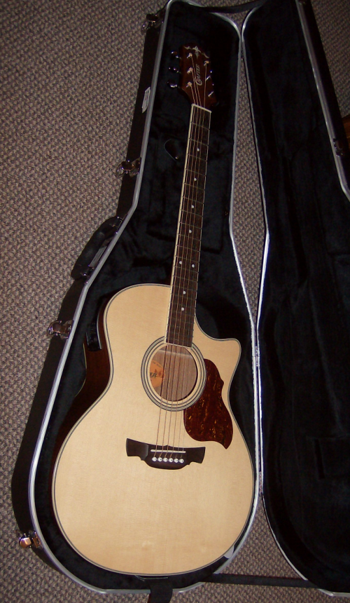 Crafter GAE8N guitar for Crafter article